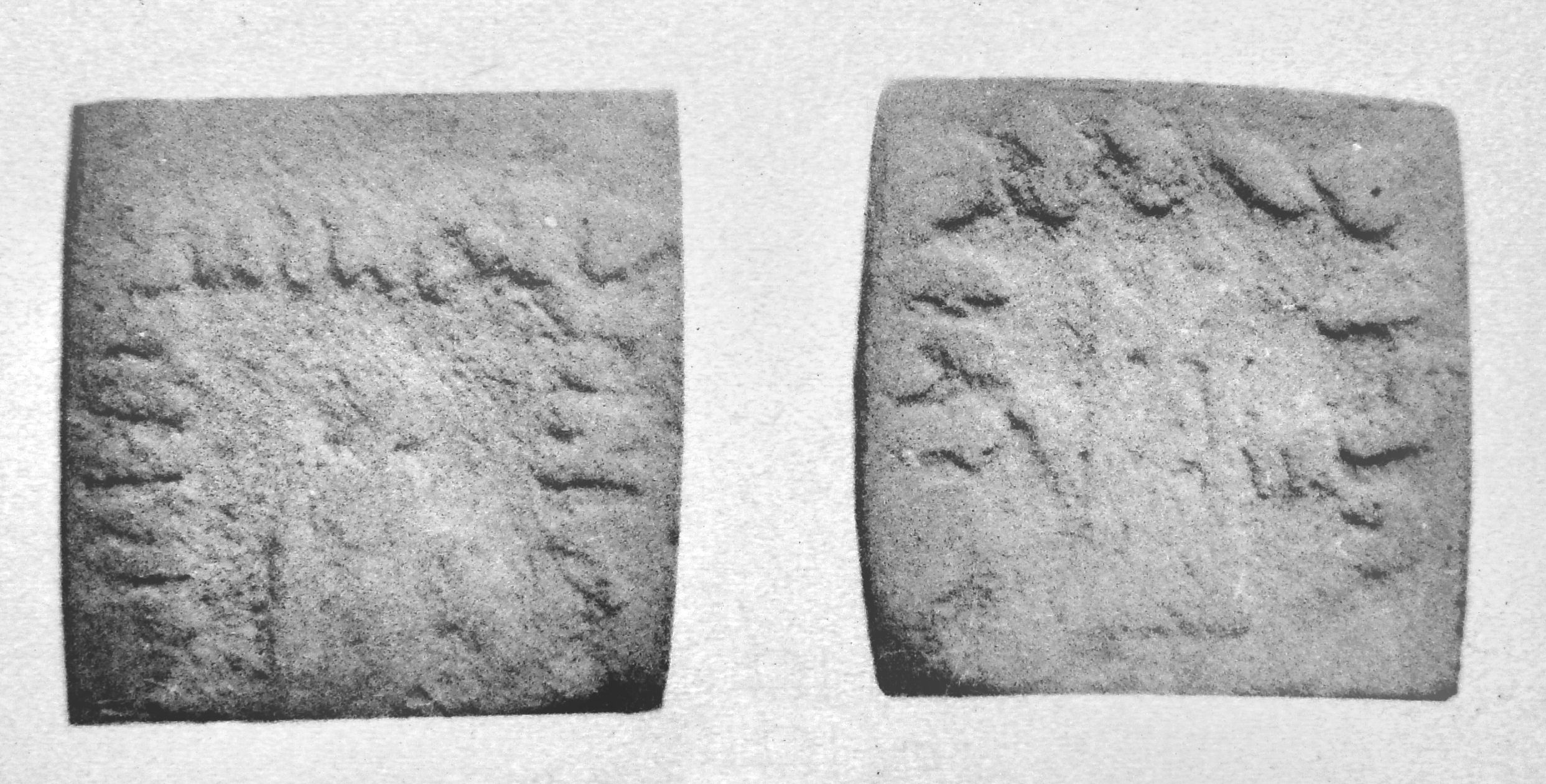 Dyonisos_coin